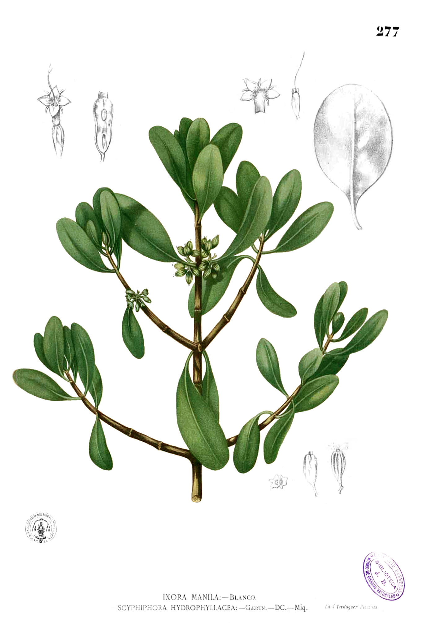 Plate from book